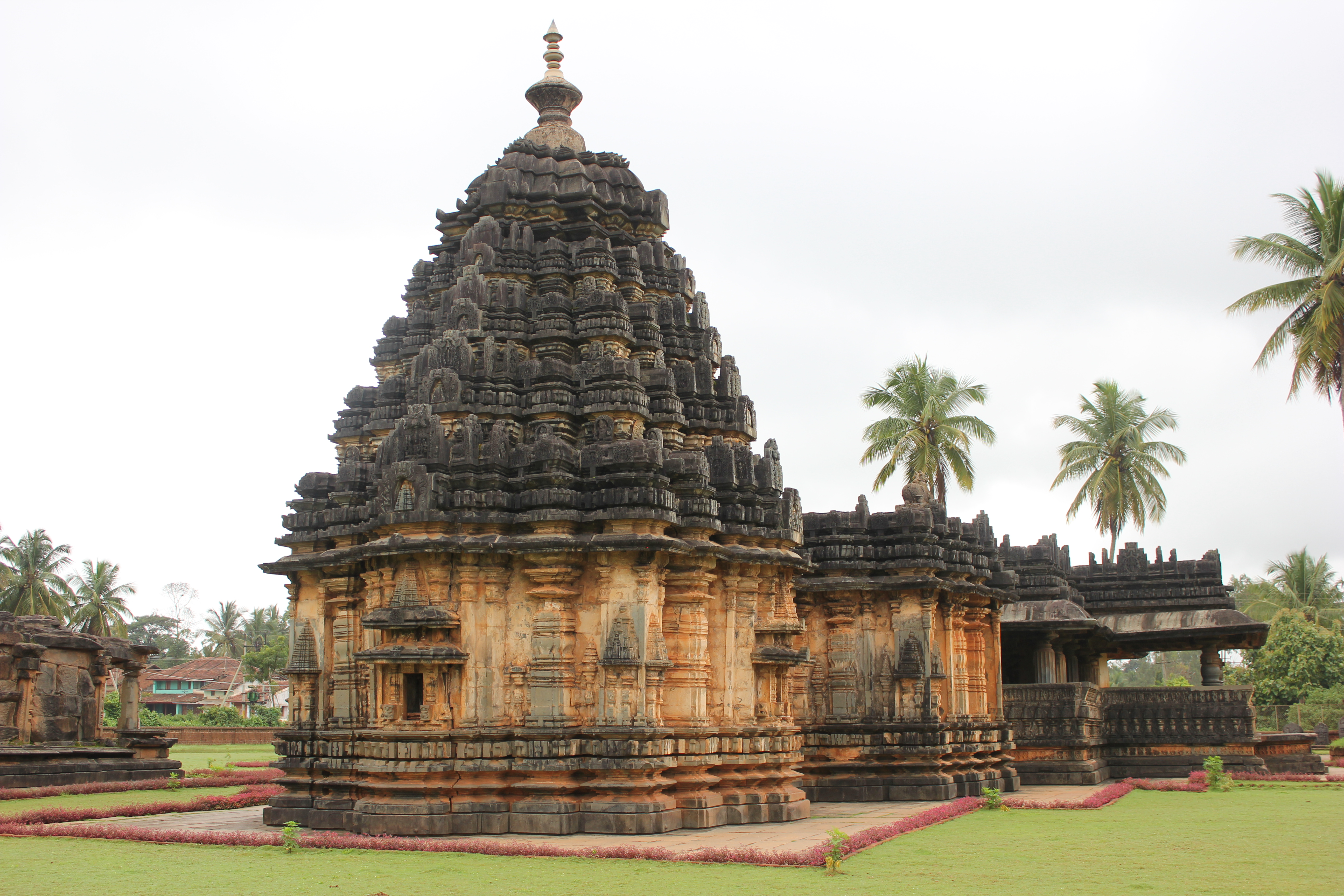 This photograph was taken by me at the Kaitabheshvara temple in Kubatur, Shimoga district, Karnataka state, India. The temple was constructed in 1100 AD, during the reign of Hoysala King Vinayaditya, a powerful feudatory of the imperial Western Chalukya Empire ruled by King Vikramaditya VI